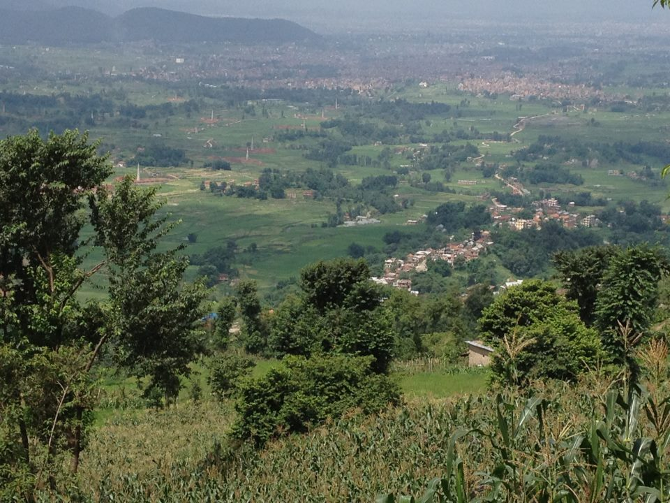 A place in Bhaktapur District.